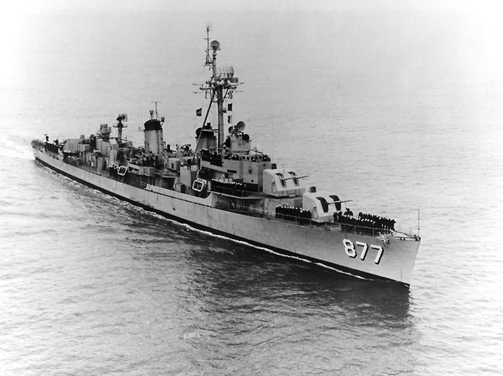 The U.S. Navy radar picket destroyer USS Perkins (DDR-877) underway, circa 1953. This image was received by the Naval Photographic Center in December 1959, but was taken several years earlier, soon after removal of her mainmast and replacement of her 40 mm guns with 76 mm/50 twin mounts.